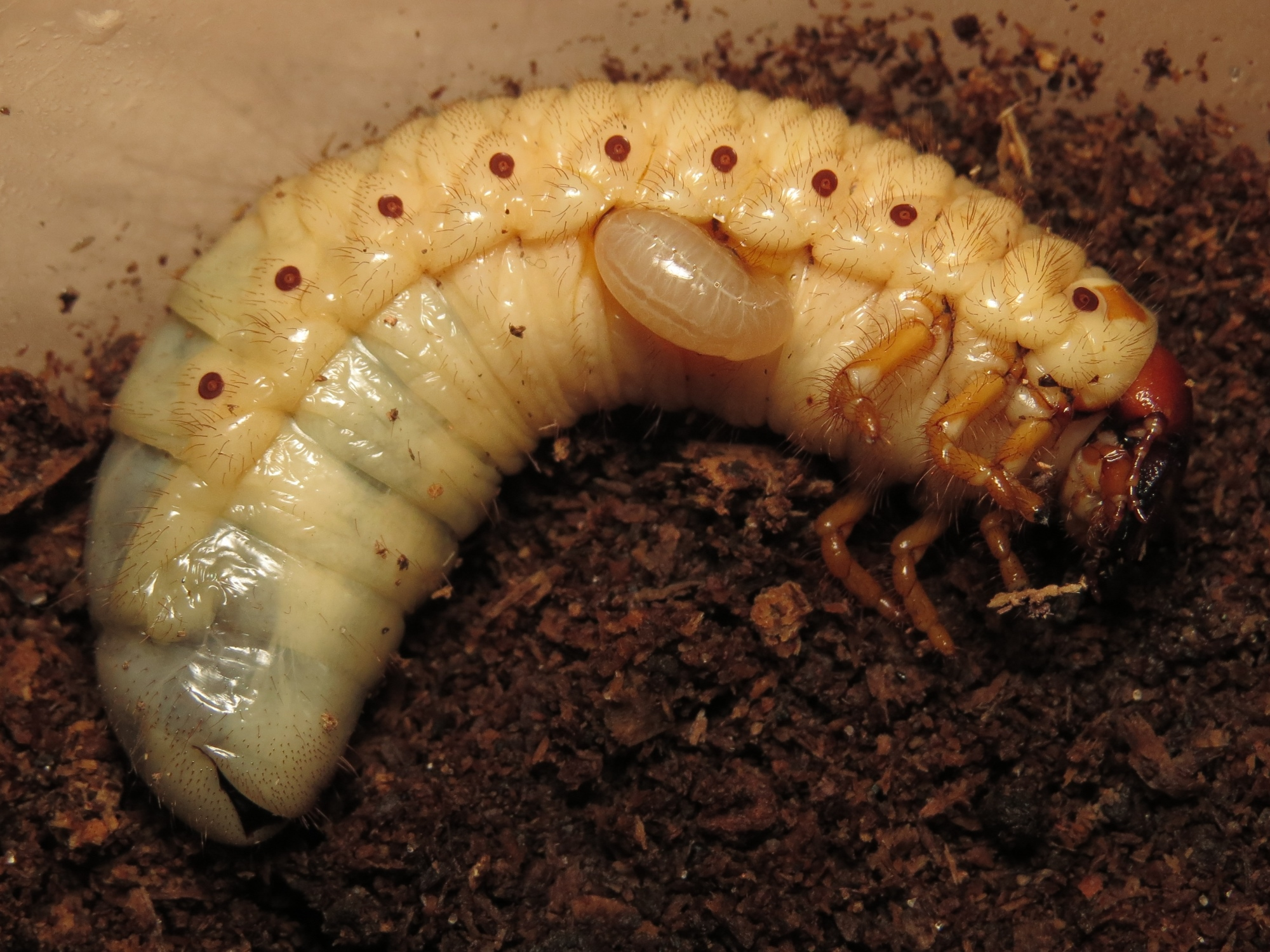 Larva Megascolia maculata plunged the front end of the body into a larva rhinoceros beetle Oryctes nasicornis and drinks her hemolymph.